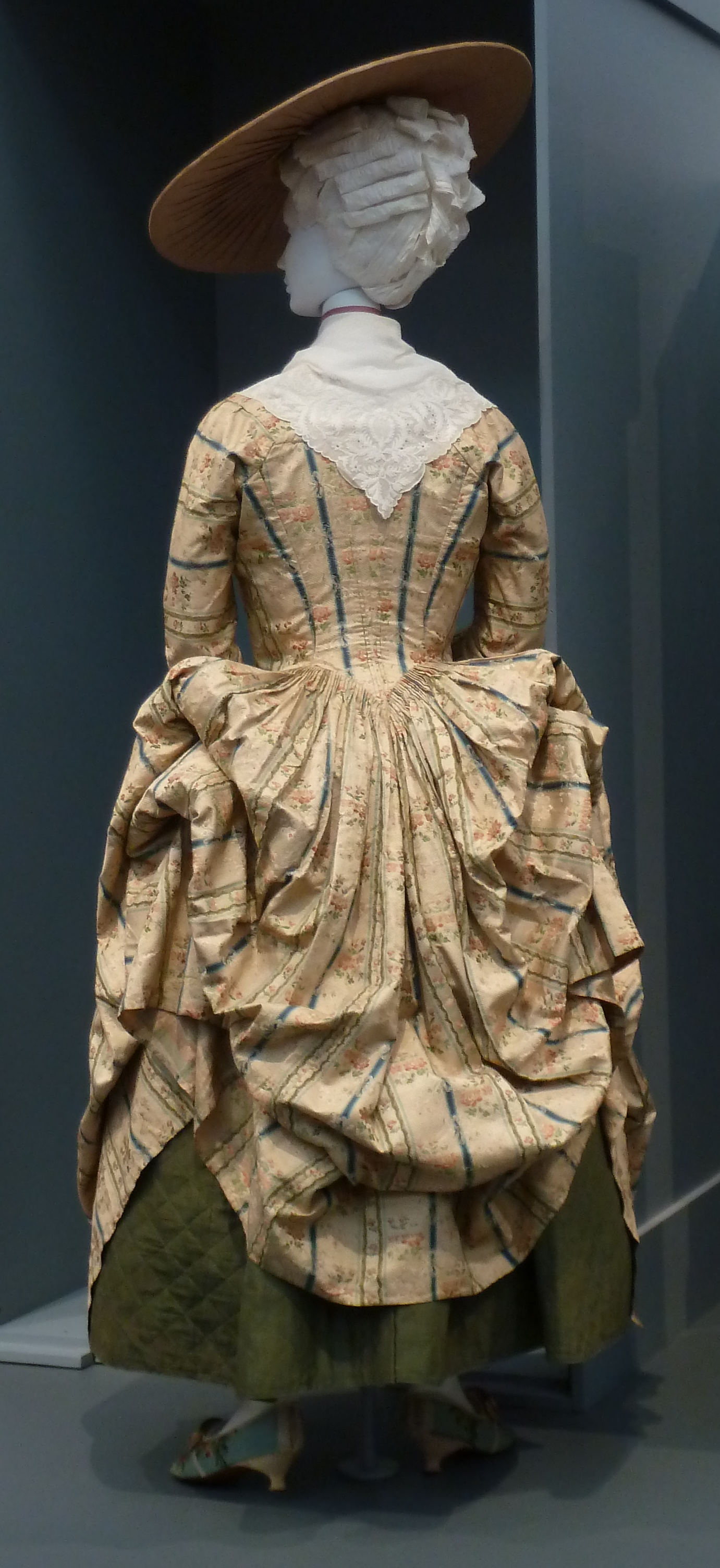 Robe à la Polonaise, France, c. 1775, plain-woven silk with supplementary warp- and weft-float patterning. M.70.85 Shown with quilted plain-woven silk petticoat, England, 1780s. M.59.25c. Hat (bergere), France, c. 1760. Straw and plain-woven cotton with silk ribbon, M.2001.556. Fichu, Europe, c. 1750-1800, plain-woven cotton muslin with linen embroidery, M.2007.211.479. Shoes, England, 1780-85, plain-woven silk with silk warp- and weft-float patterning, silk satin, and leather. M.81.3A-B. Los Angeles County Museum of Art.